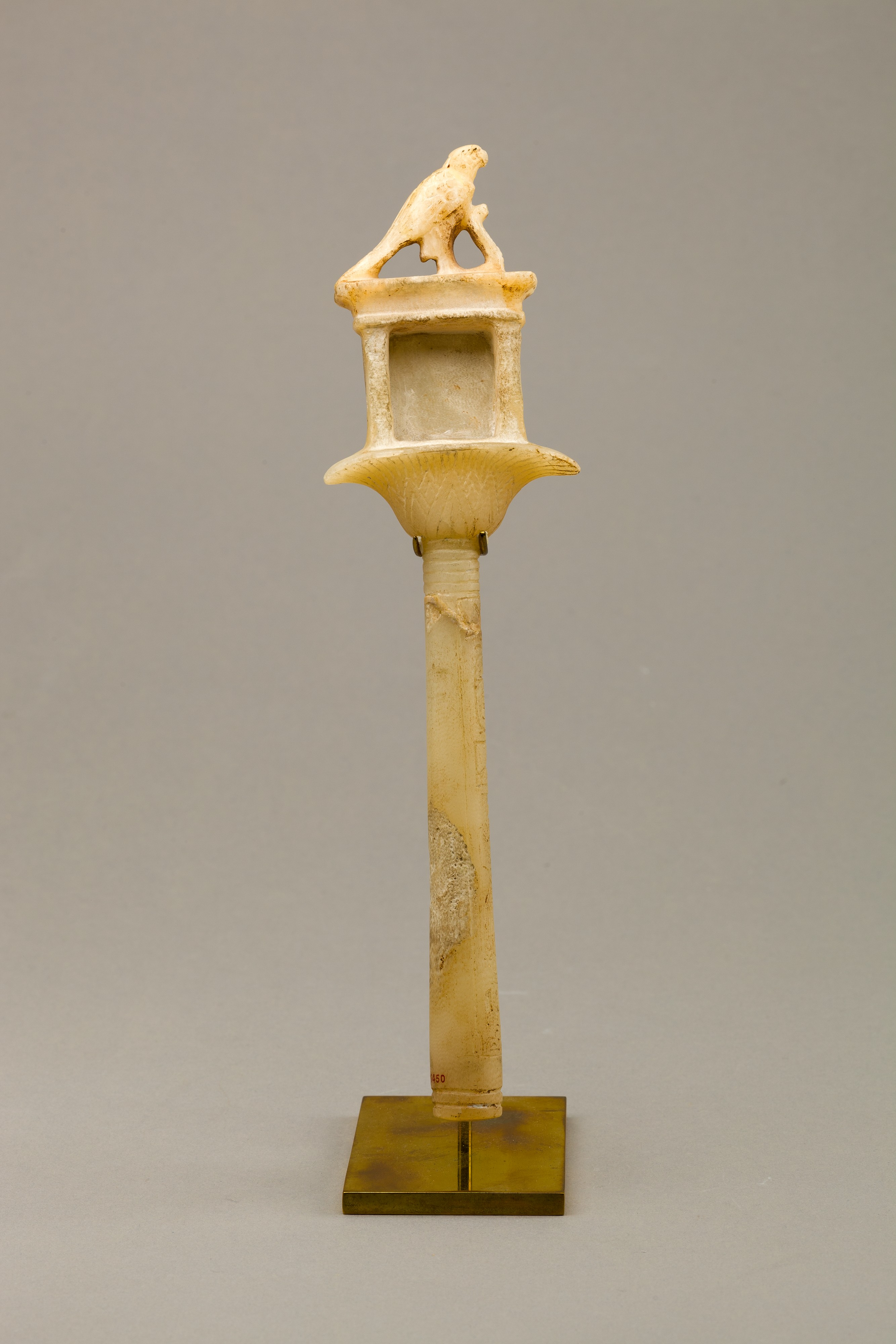 Sistrum, Teti